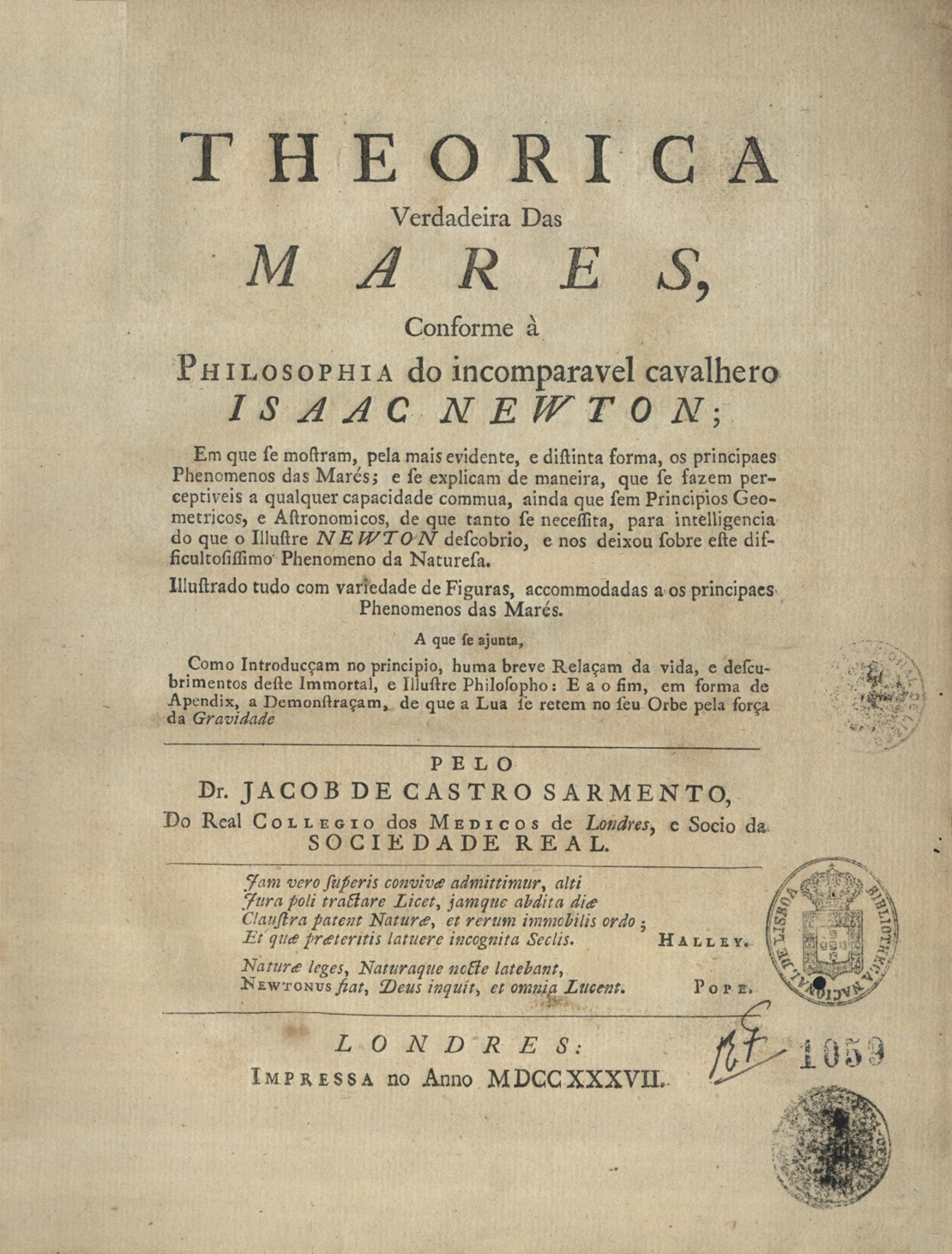 Theorica Verdadeira das Mares, frontispice